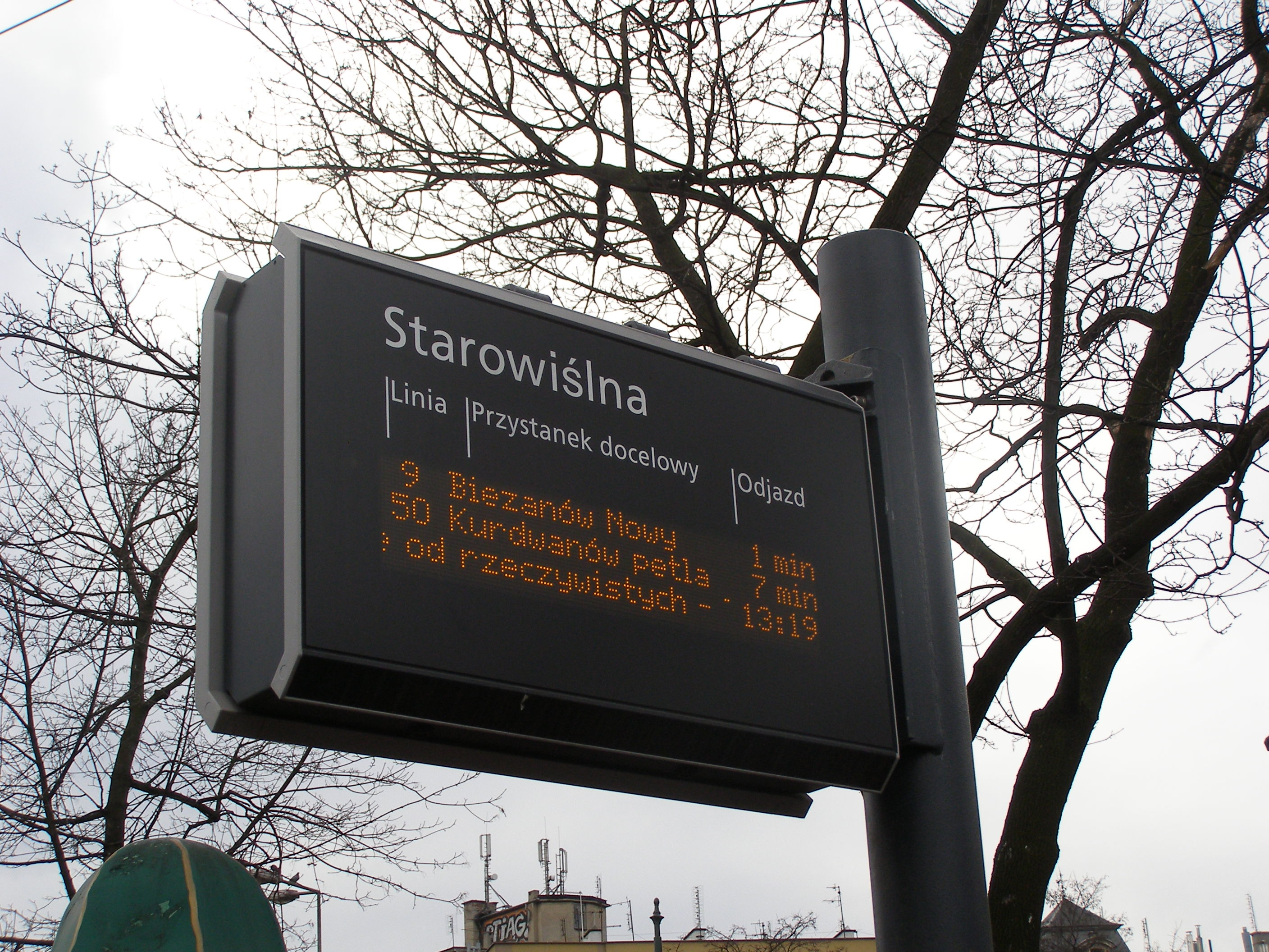 Kraków – Passenger Information System display on the «Starowiślna» tram stop in Dietla str.